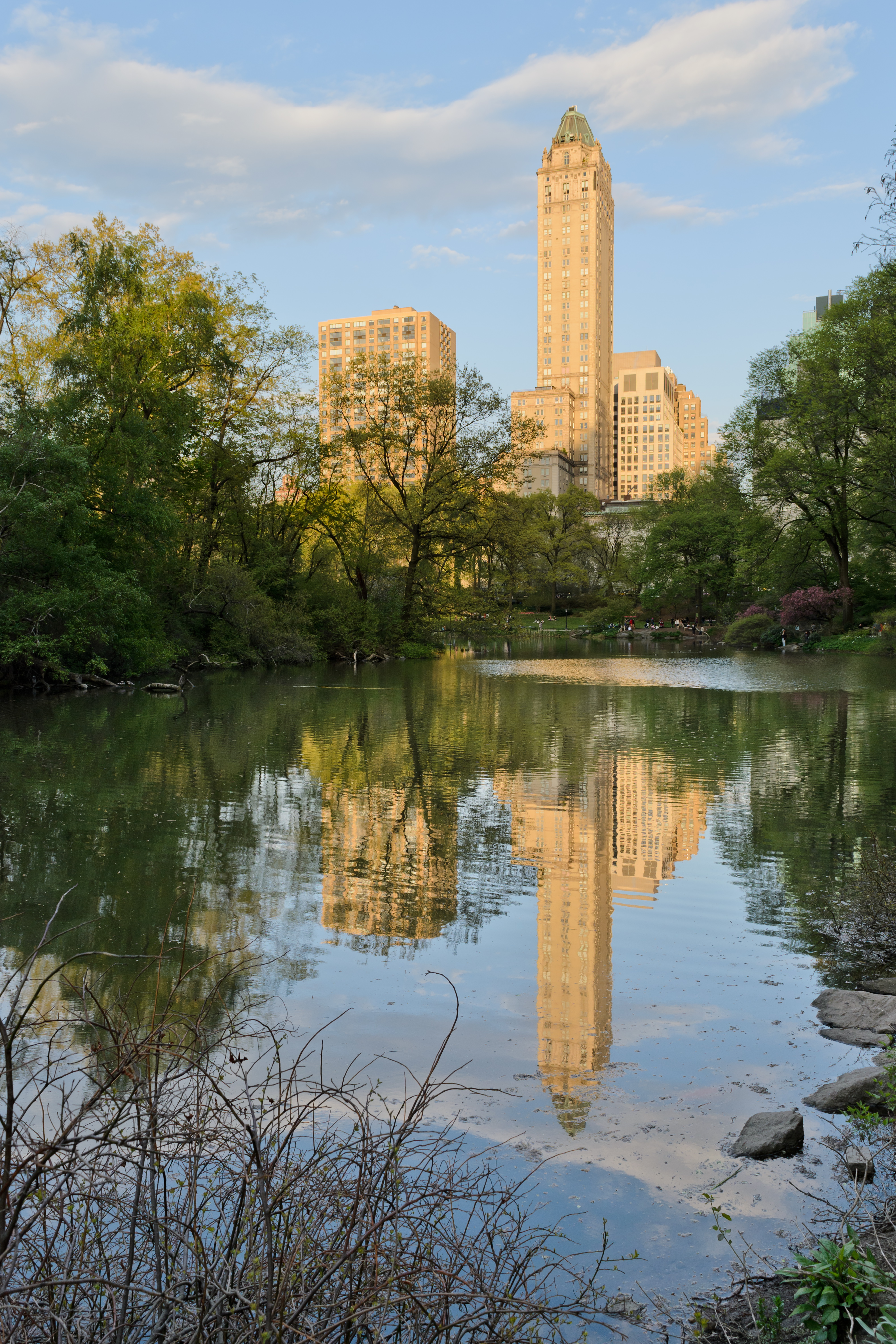 Upper East Side buildings above the Pond, Central Park, Manhattan, New York City.